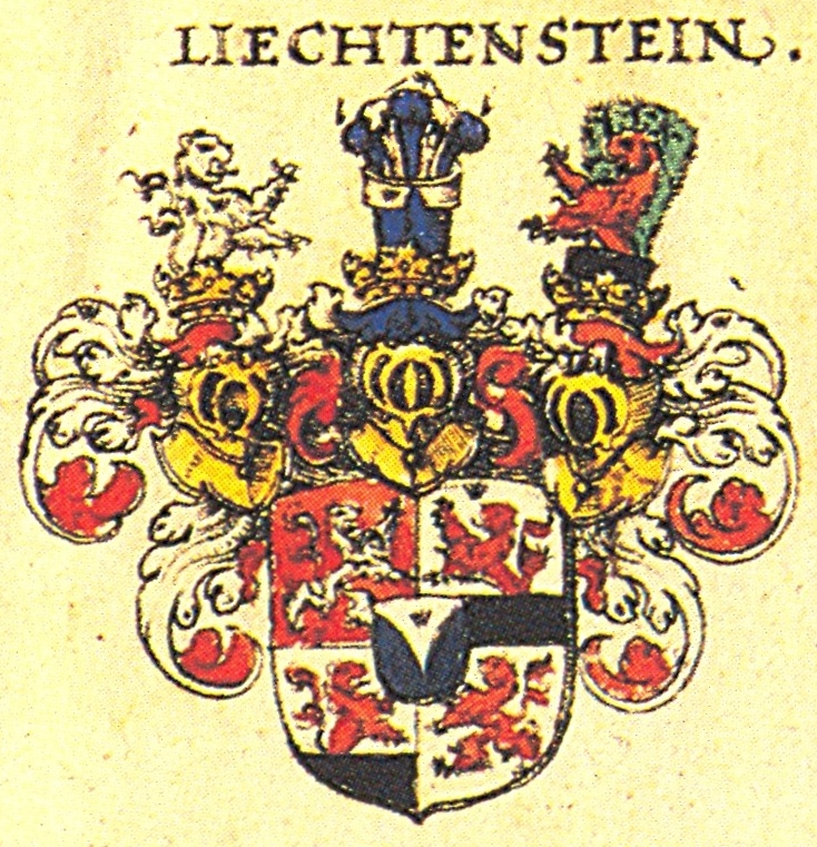 Coat of arms of Liechtenstein-Kastelkorn